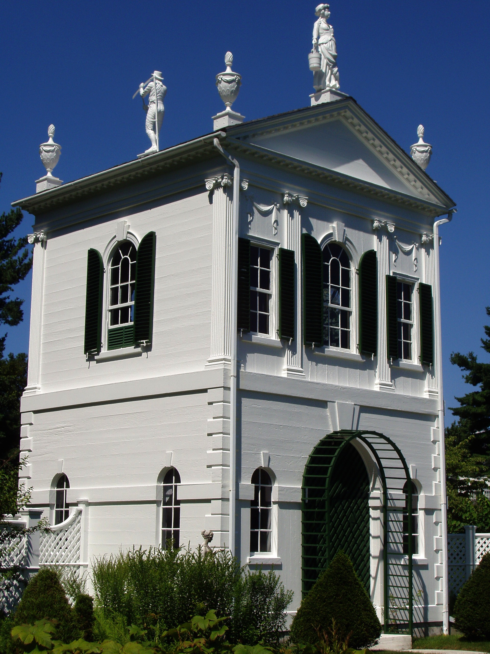 Derby Summer House - Glen Magna Farms, Danvers, Massachusetts, USA. Architect Samuel McIntire of Salem, Massachusetts.